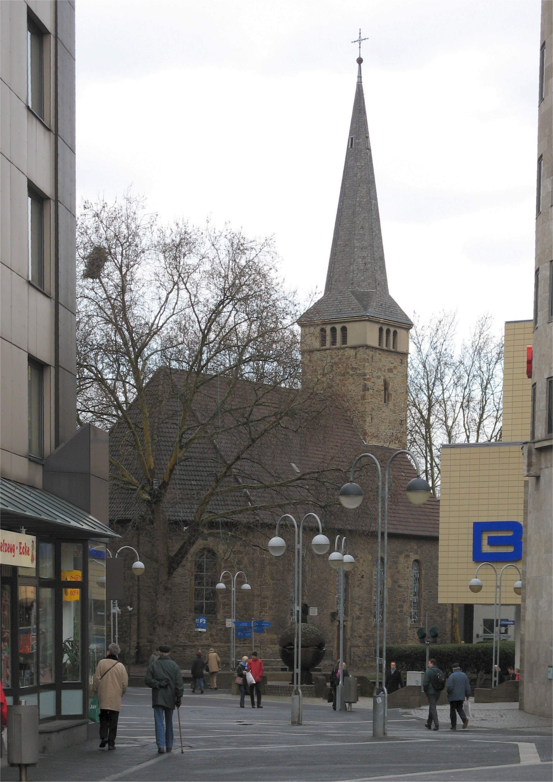 Pauluskirche, die älteste protestantische Kirche der Innenstadt. Sie wurde nach dem Westfälischen Frieden von 1648 zwischen 1655 und 1659 als schlichtes Renaissancegebäude errichtet. Nach einem Bombenangriff auf Bochum am 12. Juni 1943 brannte sie völlig aus und wurde 1950 im ursprünglichen Stil einer Dorfkirche wieder aufgebaut. Paulus Church, the oldest protestant church within the city. It was built between 1655 and 1659 as a simple renaissance building after the Westphalien-Peace of 1648. It burned down completely during an air attack on the 12th of June 1943. It was rebuilt in 1950 in its former style as a village church.